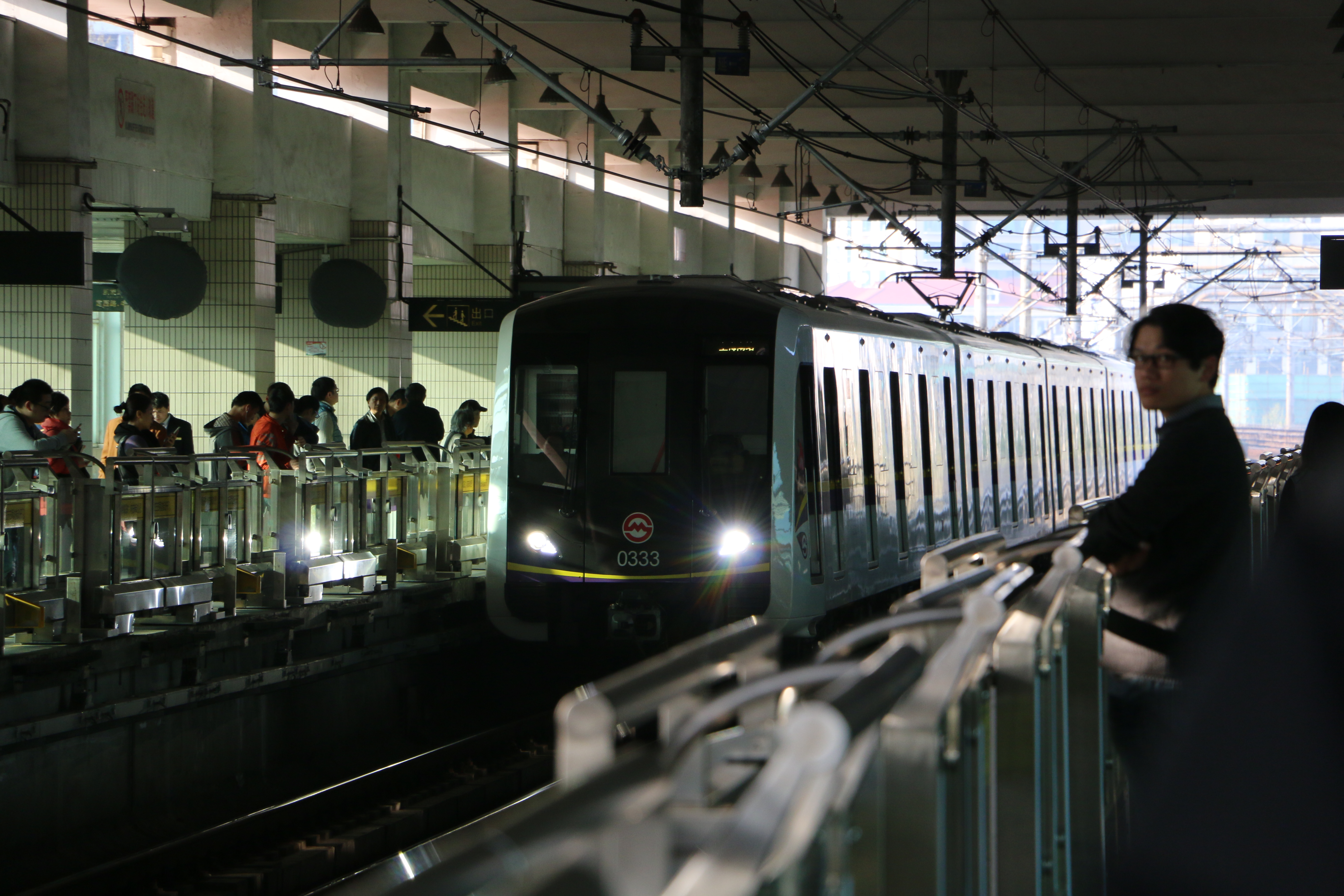 201604 03A02-333 at West Yan'an Road Station